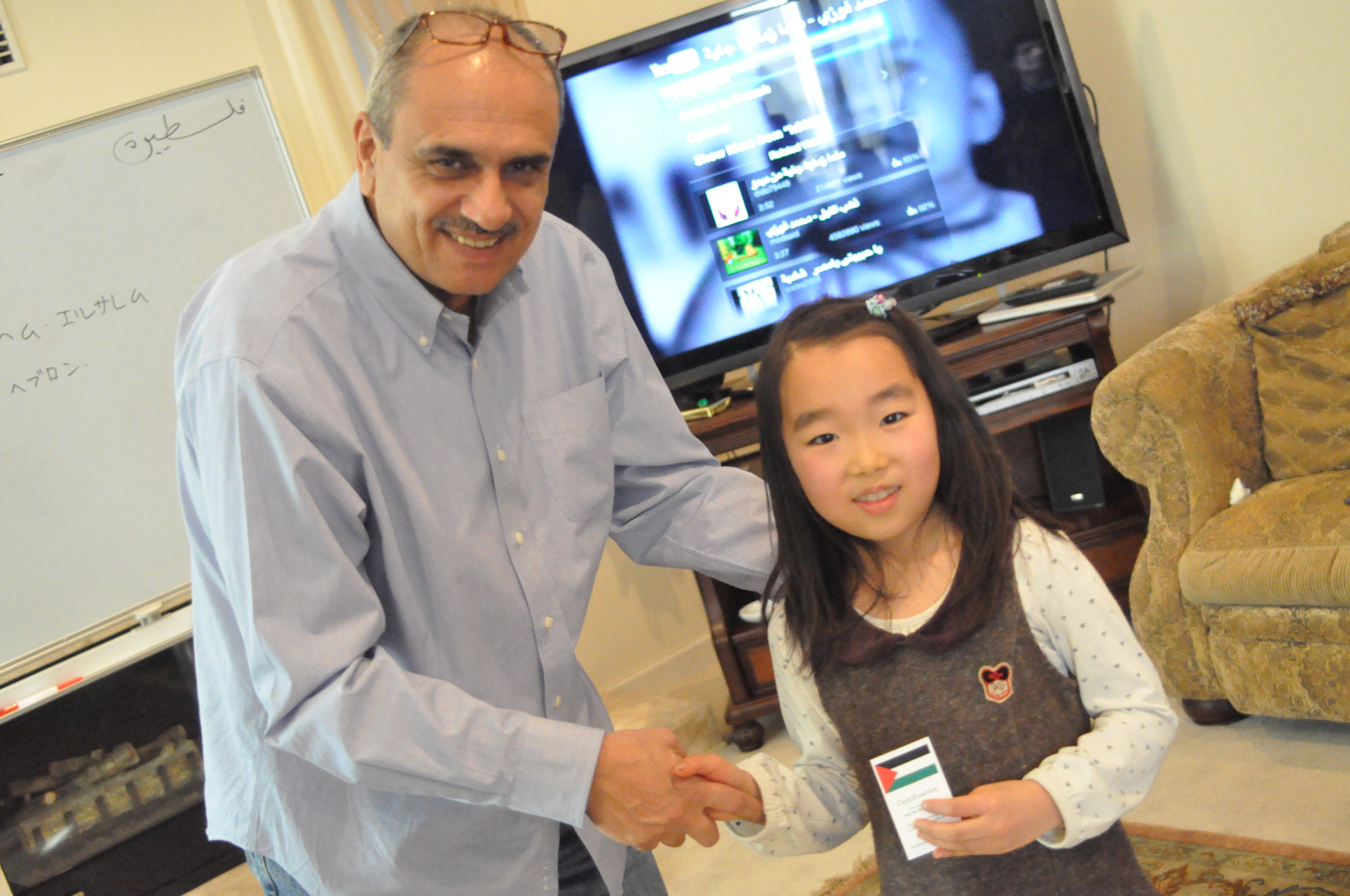 Little Ambassadors Program with Palestinian Ambassador Waleed Ali Siam